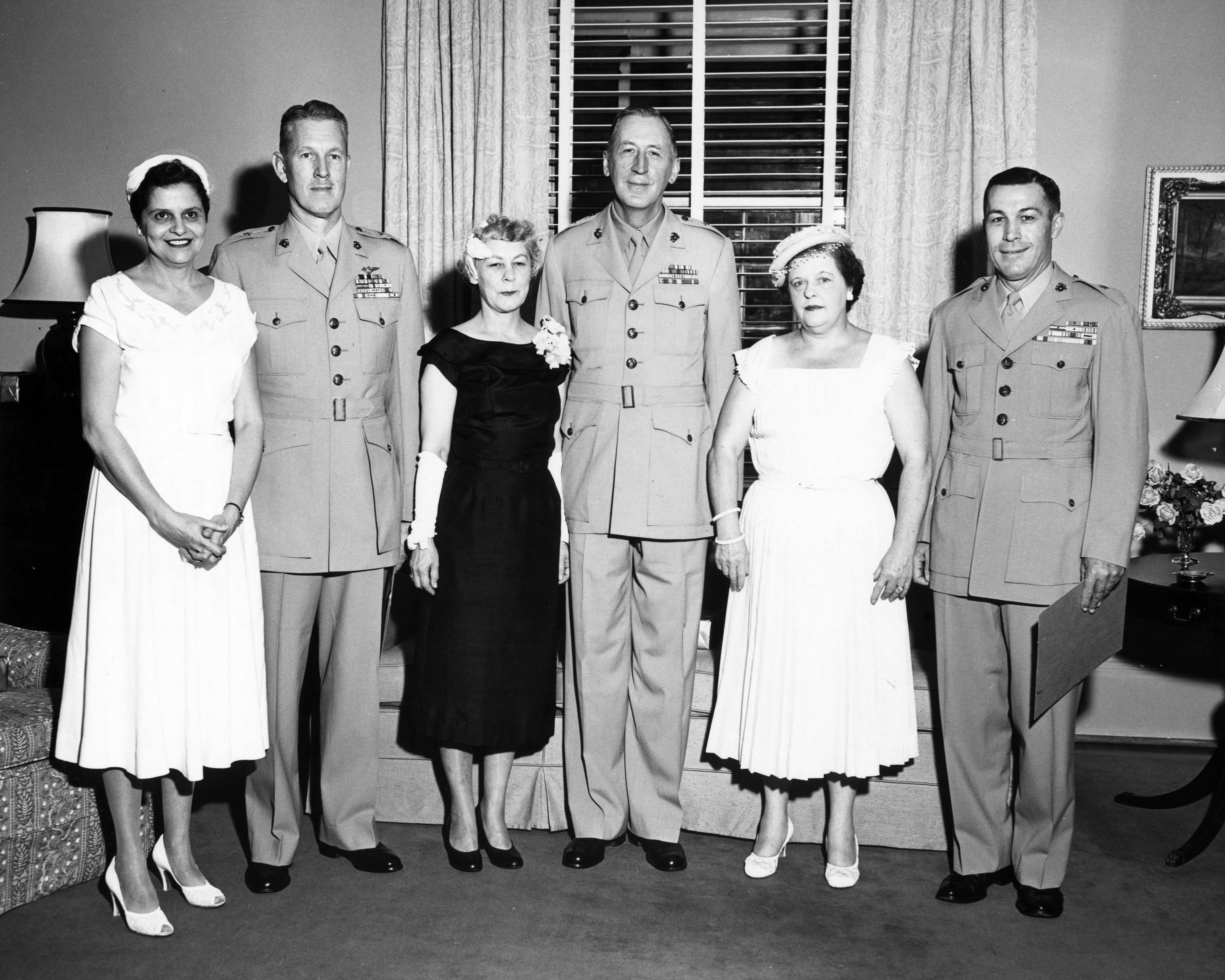 During ceremonies held in the office of Assistant Commandant of the Marine Corps, Lieutenant general Vernon E. Megee. Three officers were promoted to the rank of Brigadier general. They are shown with wives from left to right: Brigadier General Richard C. Mangrum, Brigadier General Ralph B. DeWitt and Brigadier General Frederick L. Wieseman.